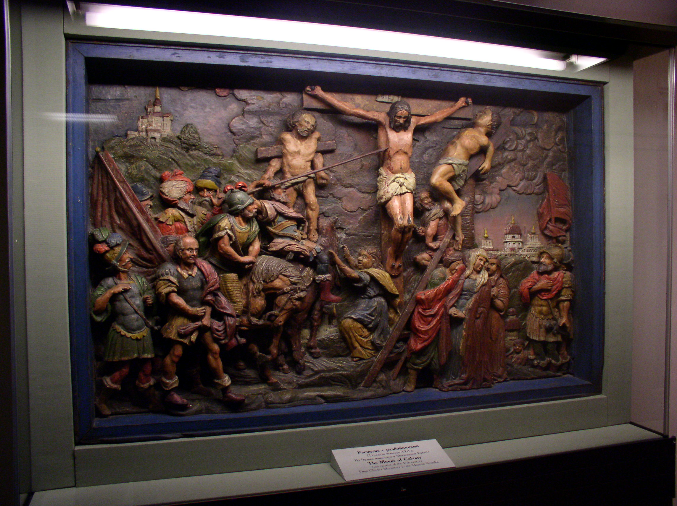 Moscow Kremlin museums exhibitions. Moscow, Russia.